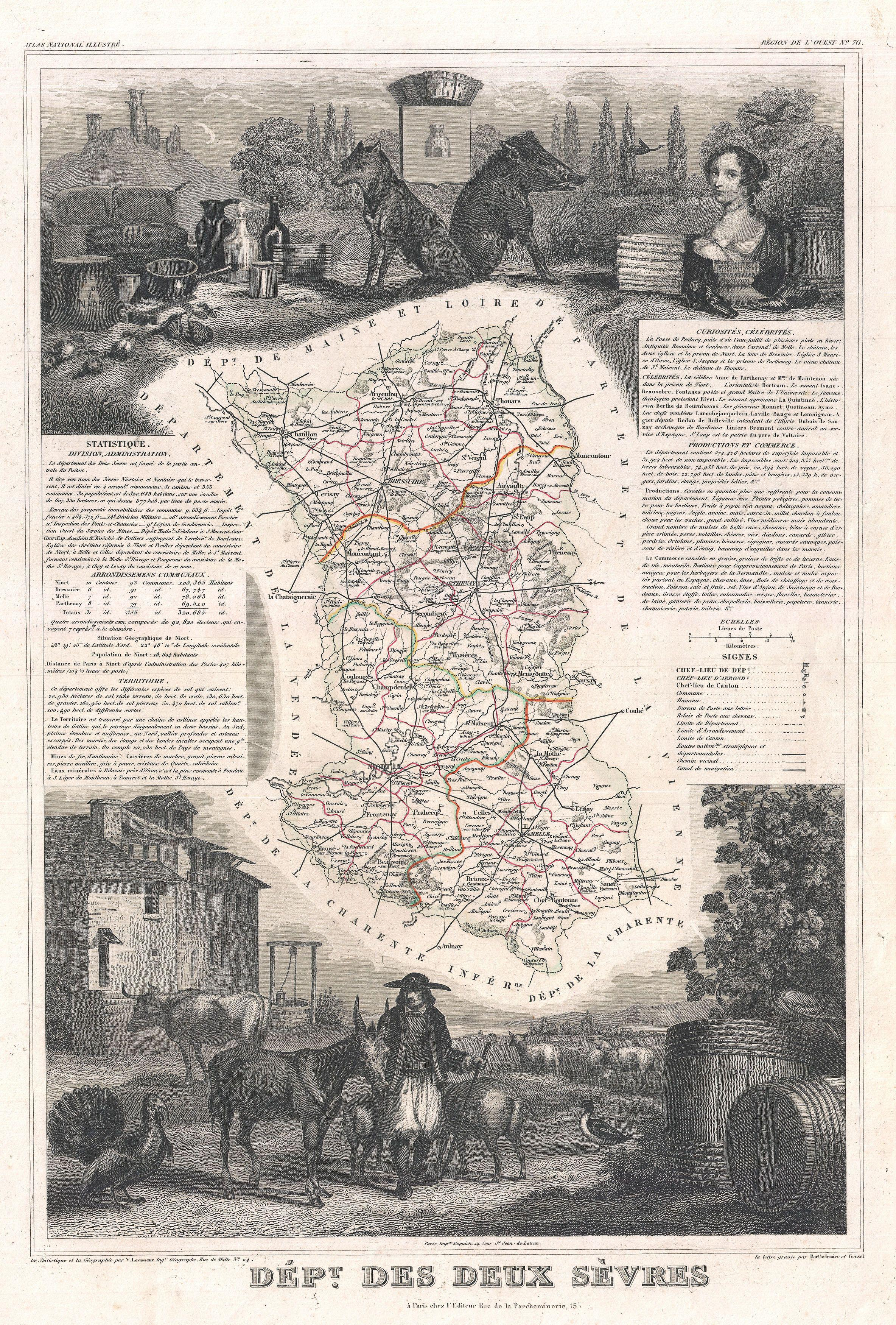 This is a fascinating 1852 map of the French department of Deux Sevres, France. This rural area produces some fines wines, such as Vin du Thouarsais, of Thouarsas. The cheese Chabichou is also made here. Chabichou is a traditional soft, unpasteurized, natural-rind goat cheese (or Chèvre) with a firm and creamy texture. The map proper is surrounded by elaborate decorative engravings designed to illustrate both the natural beauty and trade richness of the land. There is a short textual history of the regions depicted on both the left and right sides of the map. Published by V. Levasseur in the 1852 edition of his Atlas National de la France Illustree.